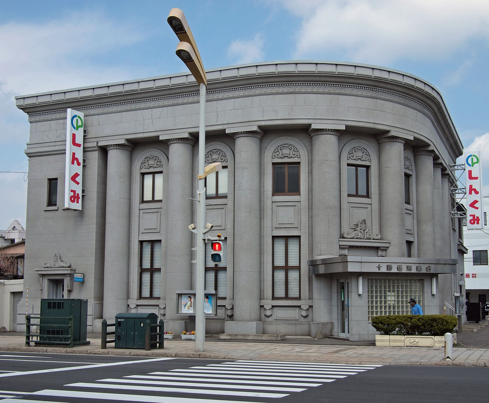 Tokachi Credit Union, Obihiro, Hokkaido, Japan